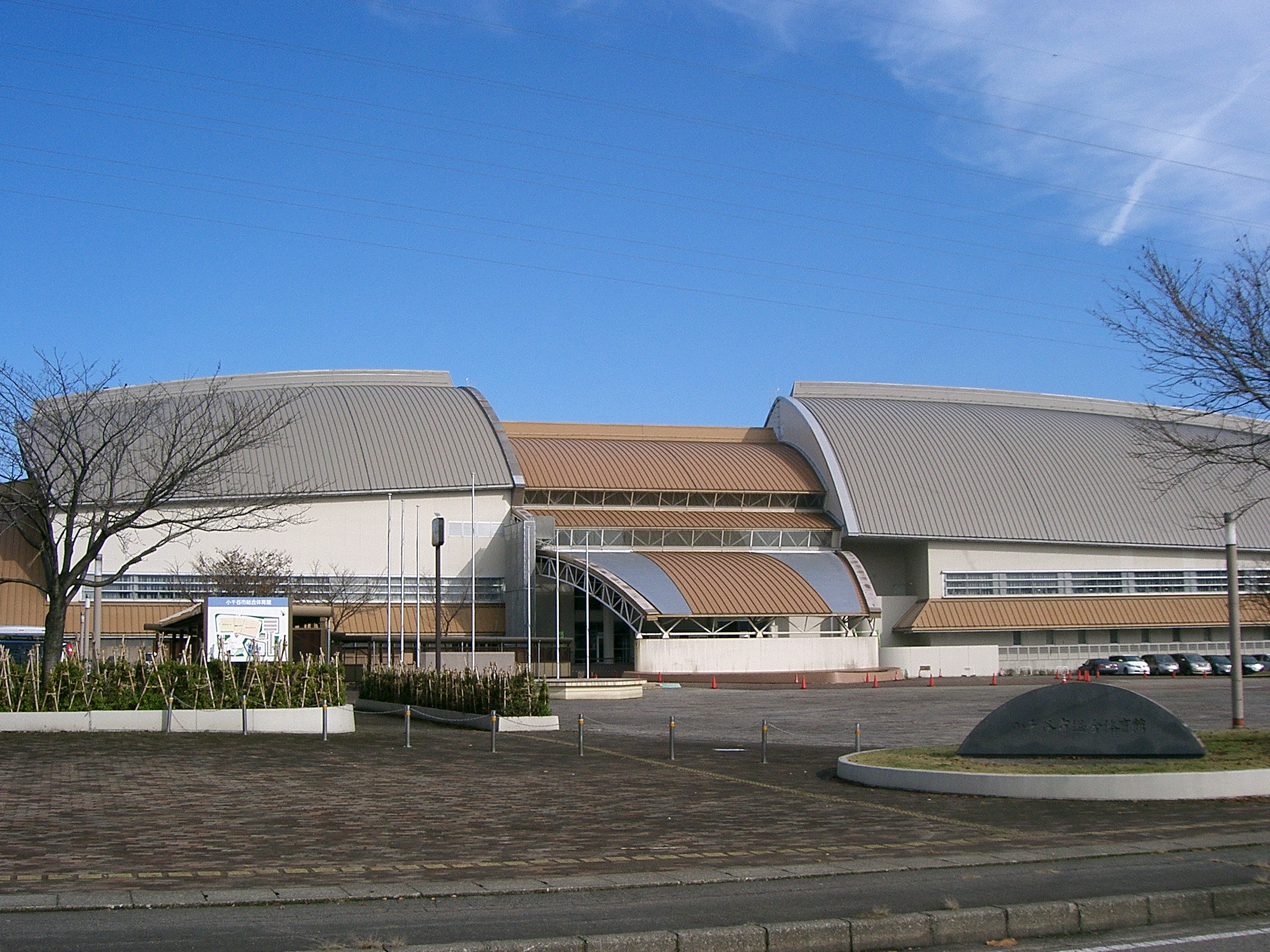 Ojiya City General Gymnasium